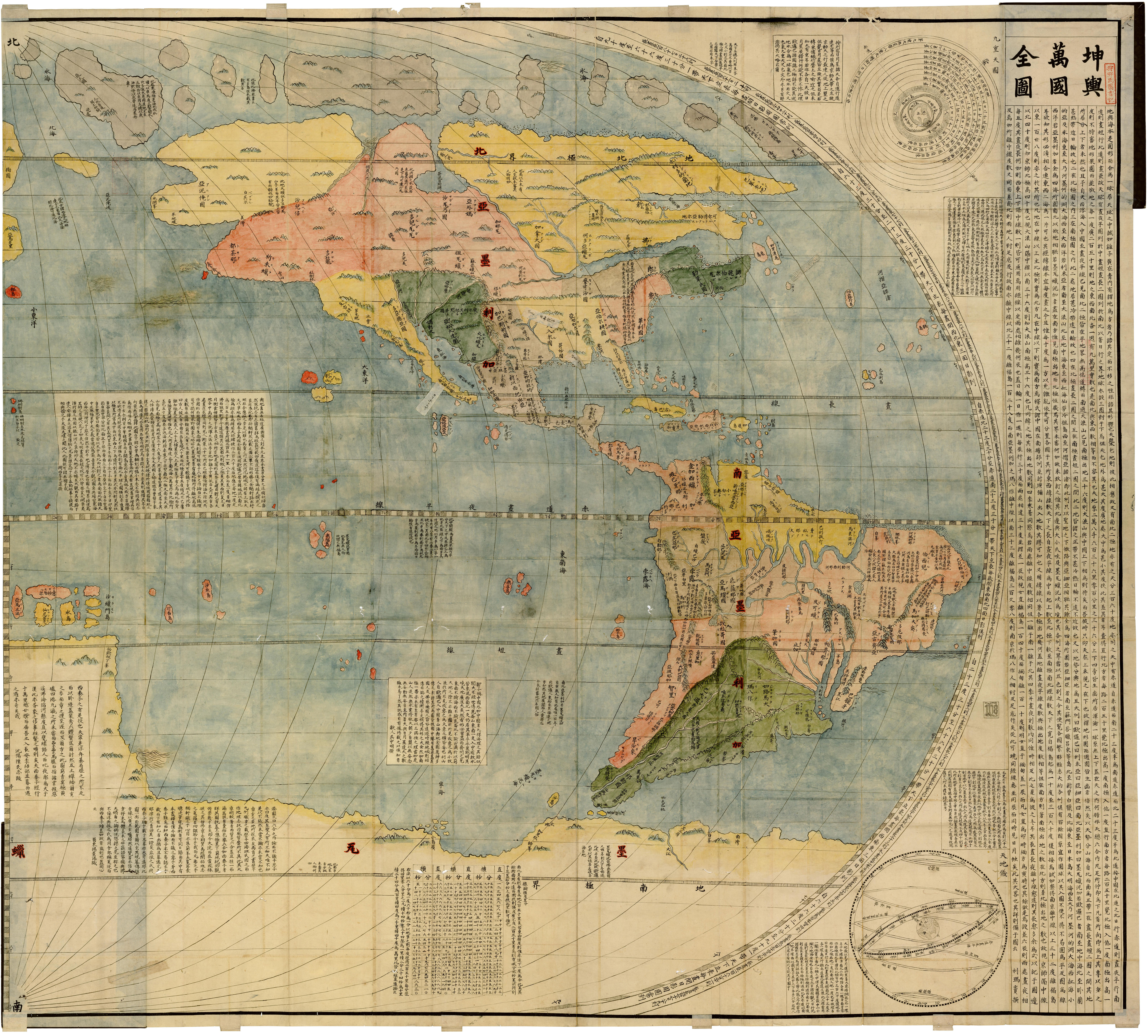 The right part of Impossible Black Tulip.